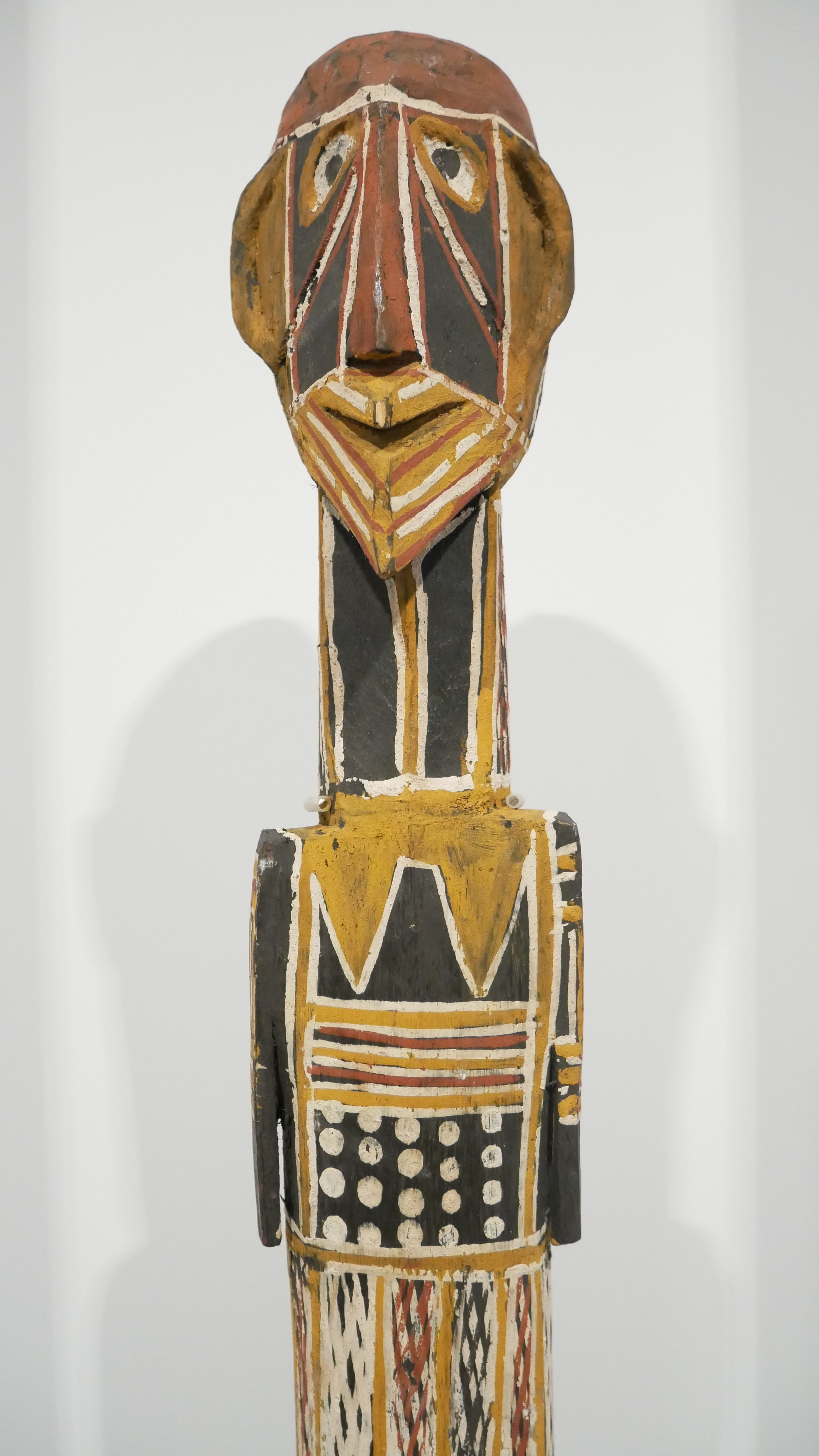 有身體彩繪的女祖靈（Female spirit figure with body painting）by Mawalan Marika in 1948，臺北市中正區城內次分區黎明里